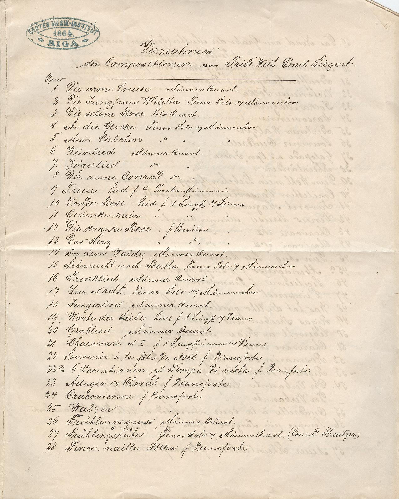 List of compositions of Latvian composer of German origin Emil Siegert. Handwritten by the author.